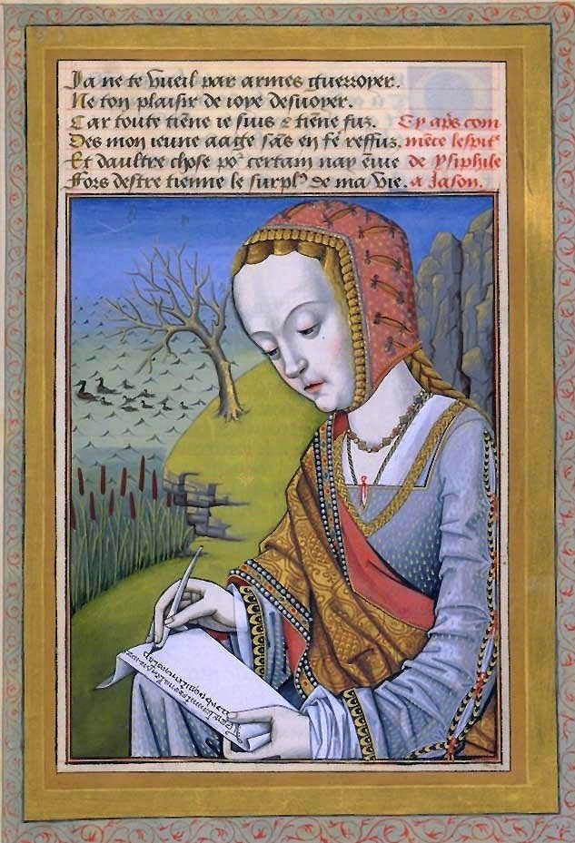 Hypsipylé, first wife of Jason, from Octavien de Saint-Gelais (b. 1468-d. 1502), translation of Ovid's Epistulae heroidum, Cognac, 1496-1498, Manuscripts Department, Bibliothèque Nationale de France, Western Section, Fr. 875, Parchment